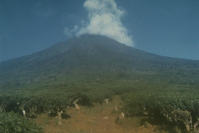 An atmospheric cloud rises above the summit of Dempo stratovolcano in SE Sumatra. Gunung Dempo here towers nearly 3 km above tea plantations below its eastern flank. Dempo is one of Sumatra's most active volcanoes, producing small-to-moderate explosive eruptions. Seven partially overlapping craters cut the summit; the youngest of these is partially filled by a crater lake.